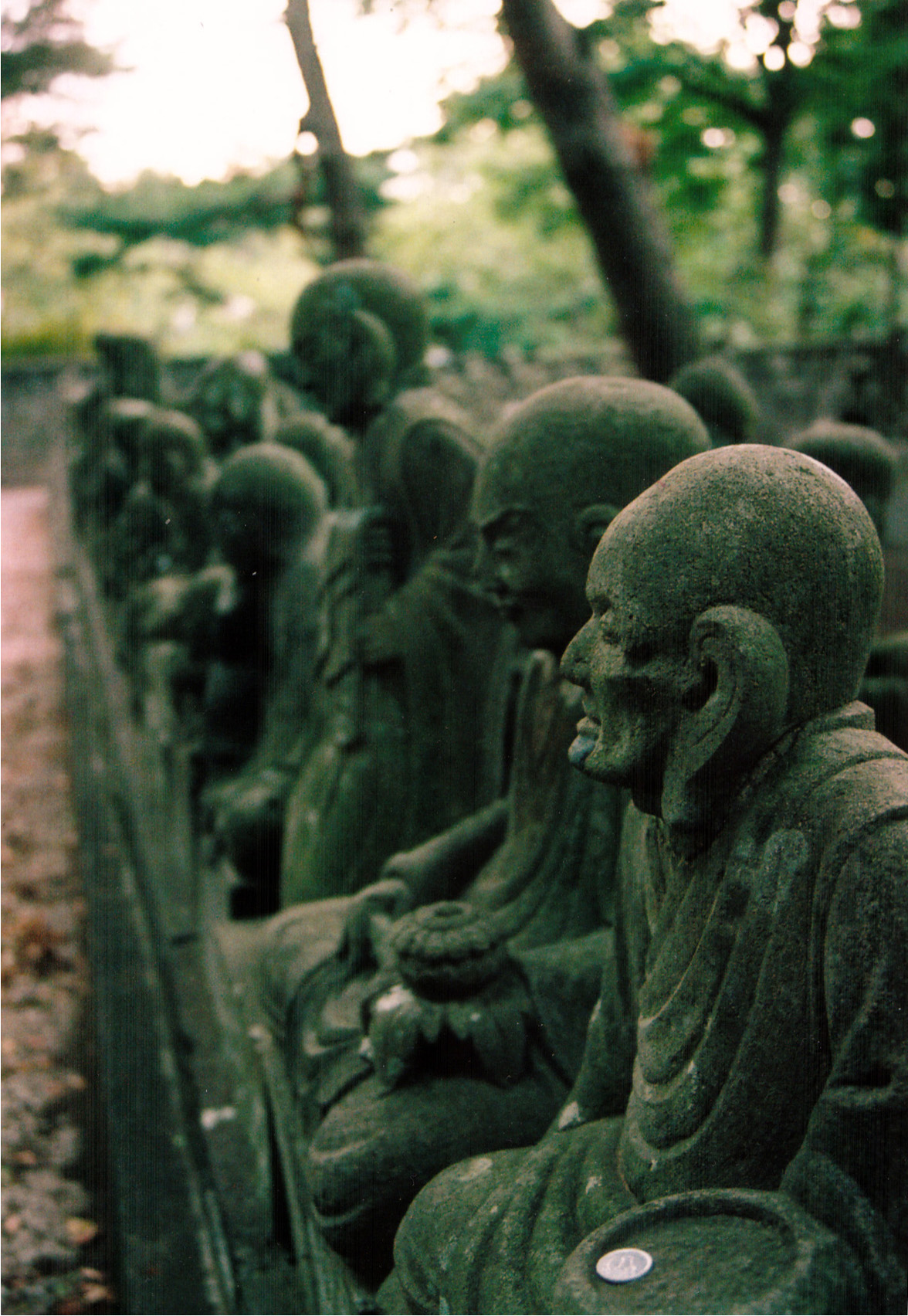 Some of the 500 statues of Rakan in Kawagoe-shi, japan in The temple of Kita-in. There are actually 540 statues, no two are the same. They were made between 1782 and 1825 by various artists. Some are carrying small offerings.